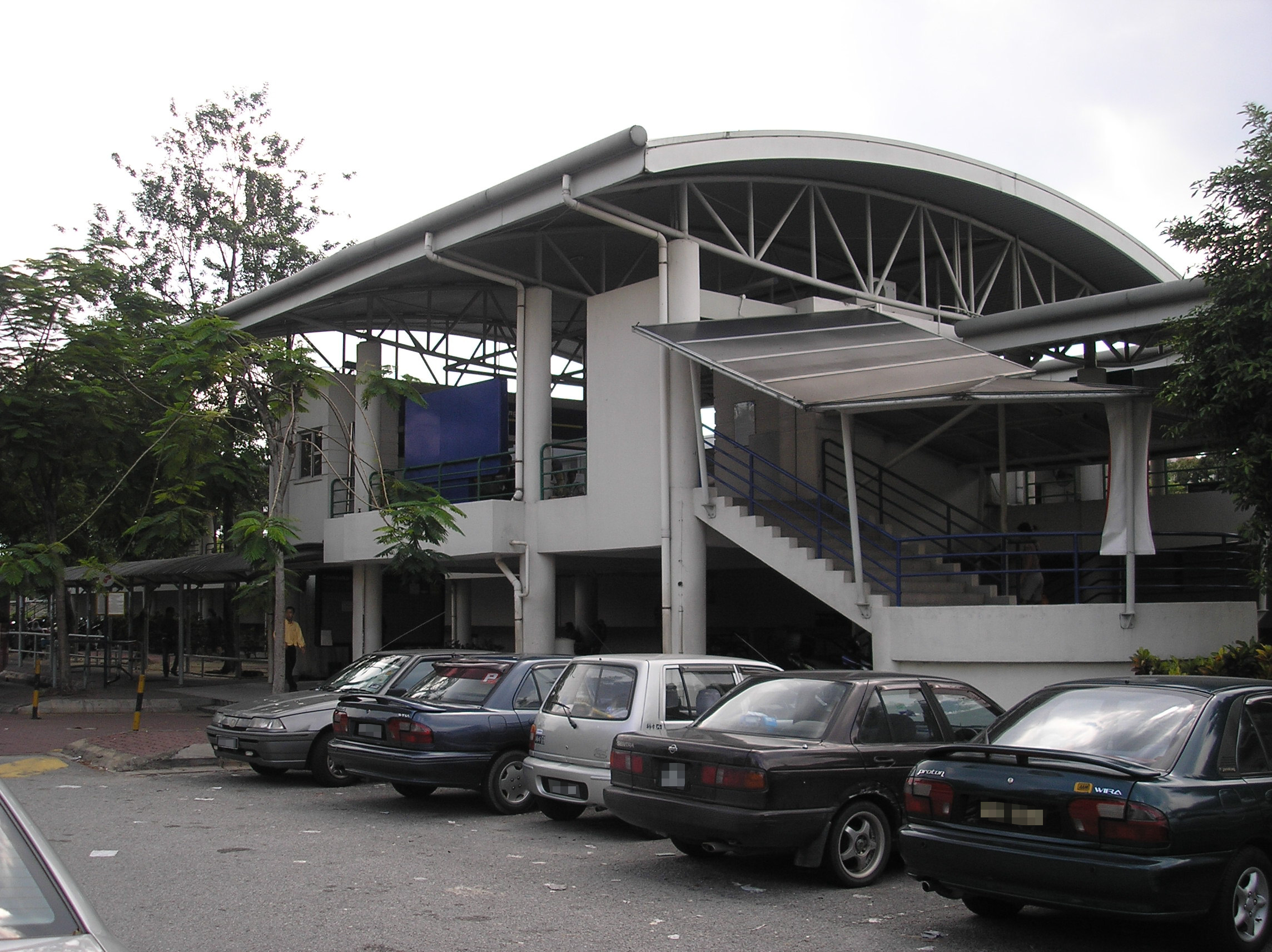 An exterior view of the Cempaka LRT station (Ampang Line), Selangor, Malaysia. Originally uploaded June 4, 2007.